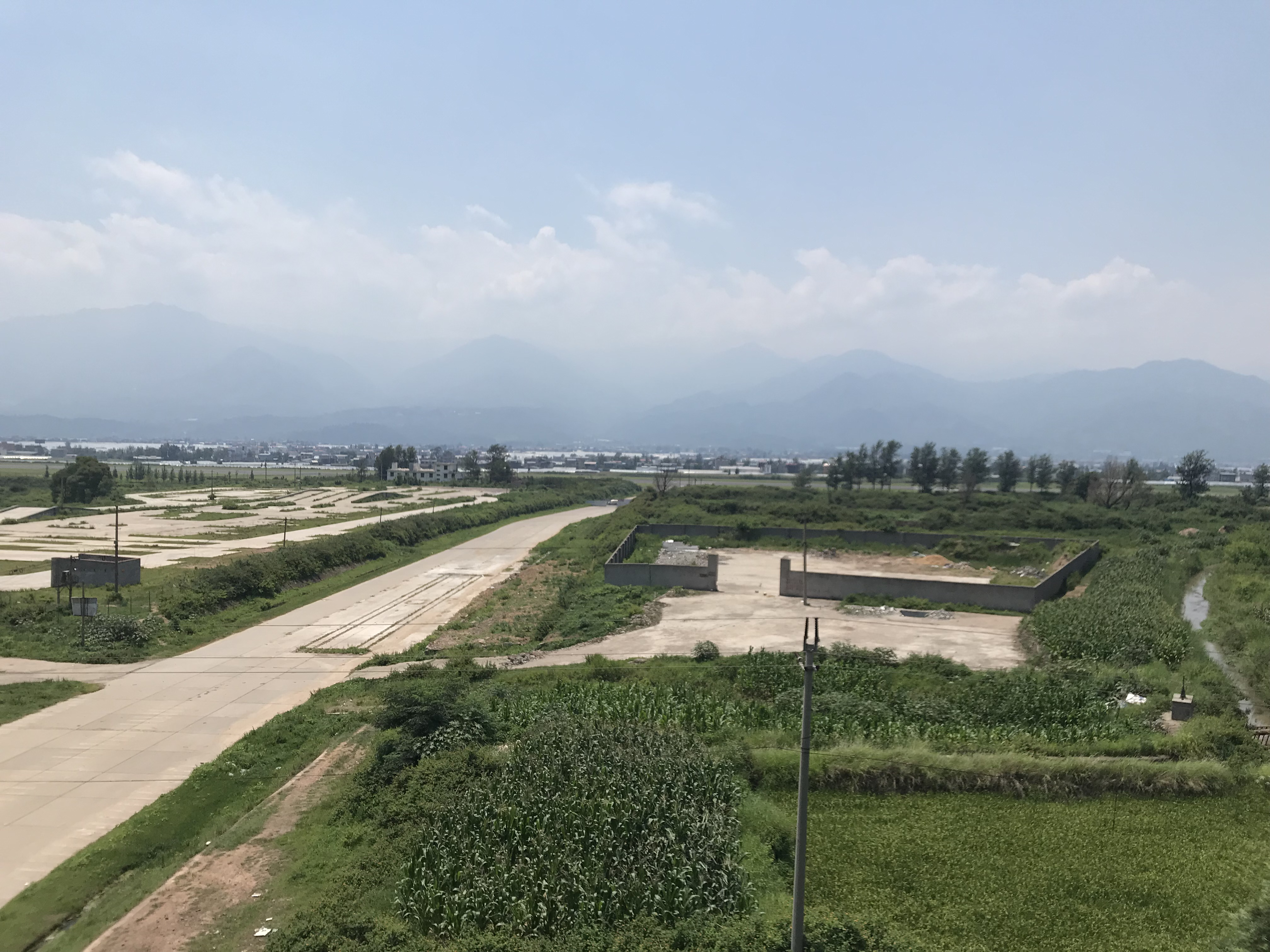 201908 Runway of Xichang Airport from Chengdu-Kunming Railway